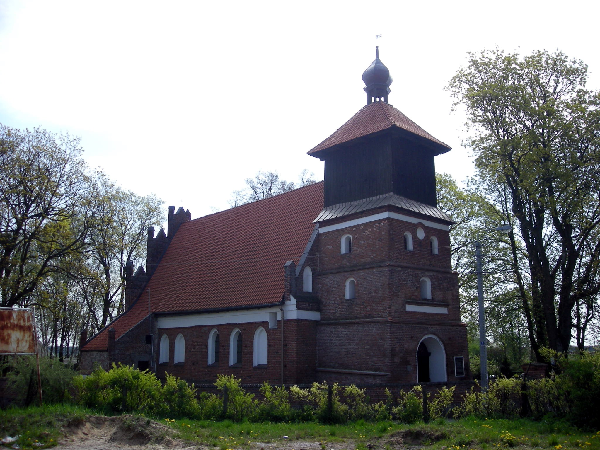 The church in Wielkie Radowiska, Poland.